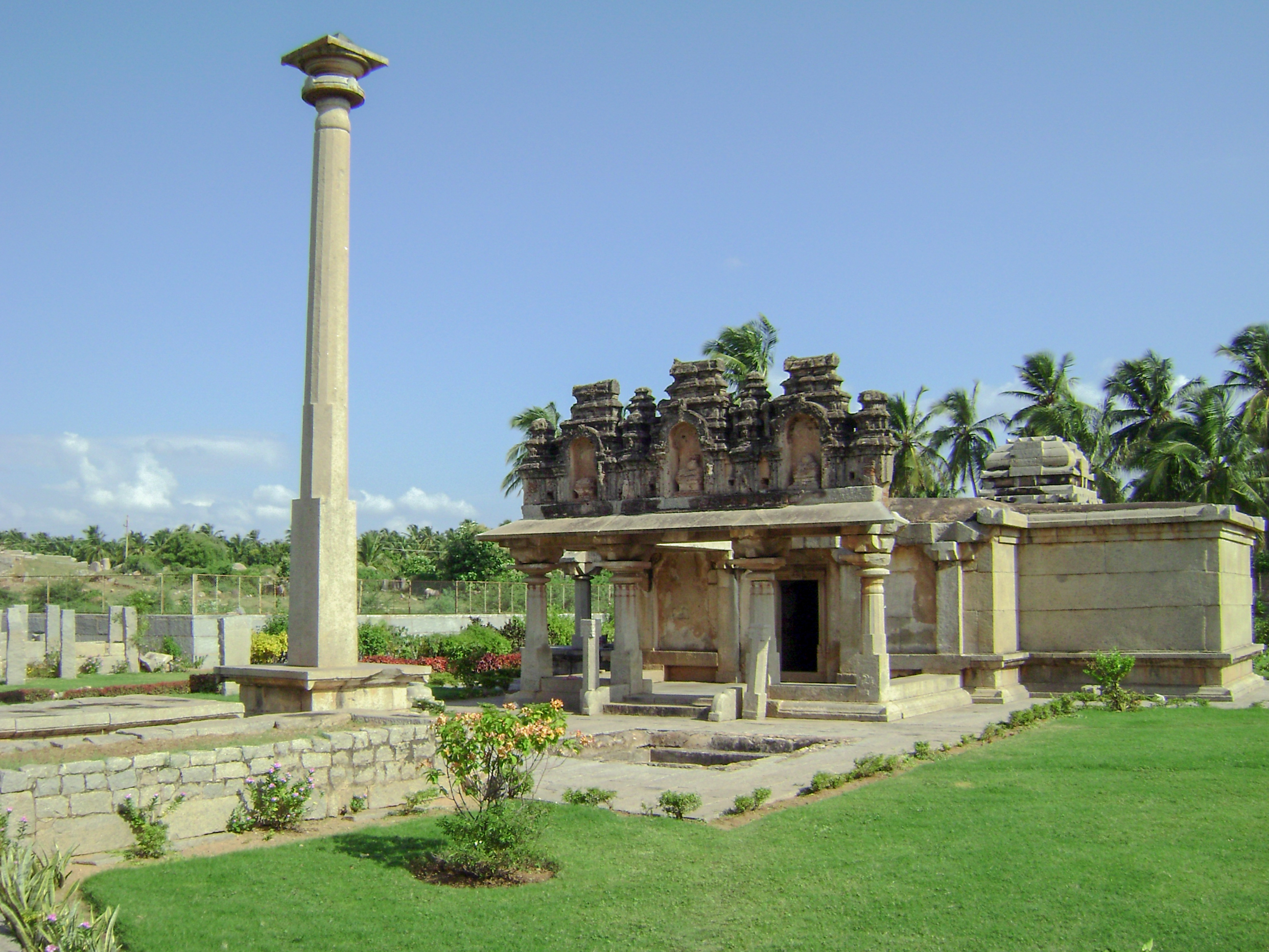 Ganigitti temple means ‘the oil women’s temple’! The reason for the curious name is unknown. There is the main temple and a small shrine adjacent to it. In front of the main temple is the Stumbha (lamp post) with inscription on it. The temple is dedicated to Kunthunatha, the 17th Thirthankara (Fordmaker) of Jainism. Inscription in the courtyard of Ganigitti temple. Inscription in the courtyard of Ganigitti temple. It says the temple was commissioned in 1386 AD by Irugappa, a general of Harihara II. The inscription says the temple was built in AD 1386. Irugua, the commander in chief of Harihara II, commissioned the temple. The sanctorum doesn’t contain the idol. However the parapet above the temple spots the stucco image of the Jain saint. This is a typical example of the early Vijayanagara architecture. The Bhima’s Gate just behind the temple complex is an attraction worth a quick short trip. The large monolithic lamp post is a highlight.Courtesy hampi.in